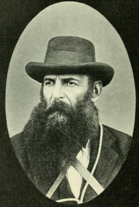 A portrait of Jacobus Hercules de la Rey, Boer commander